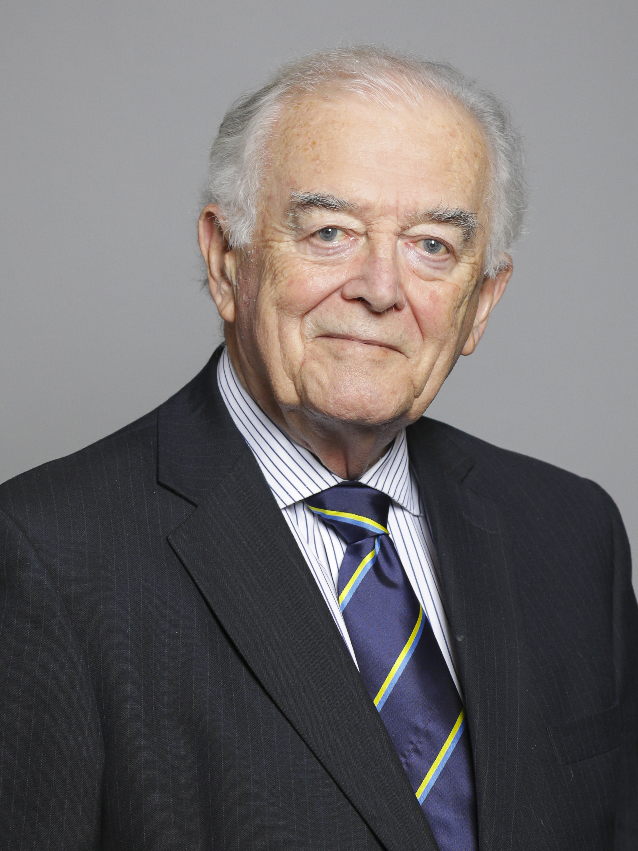 Official portrait of Lord Balfe Full sized portrait of Lord Balfe